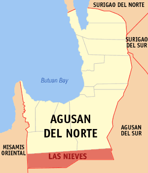 Map of the Agusan del Norte showing the location of Las Nieves